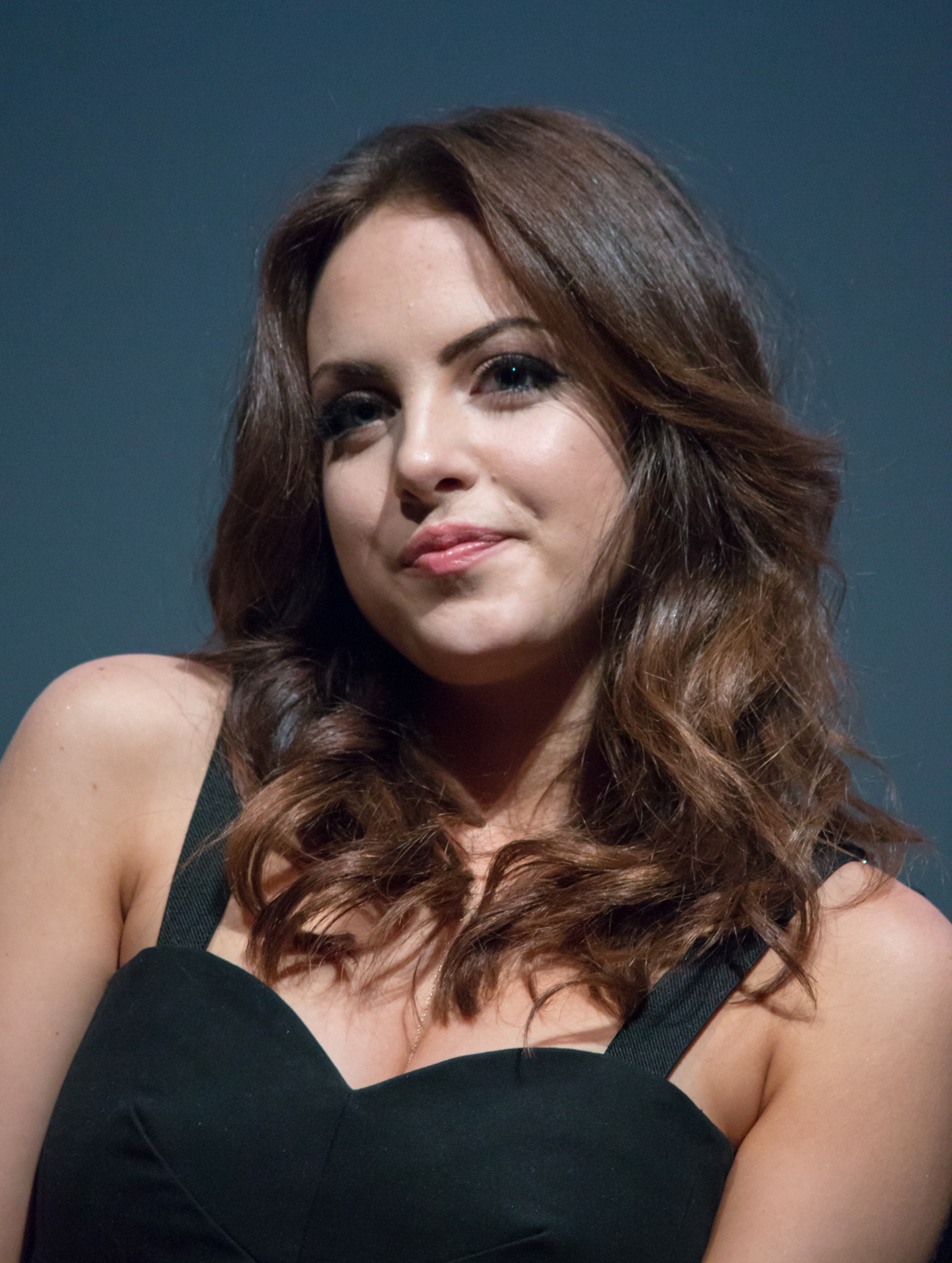 Elizabeth Gillies at the 2015 ATX TV Festival presentation on the TV show Sex & Drugs & Rock & Roll